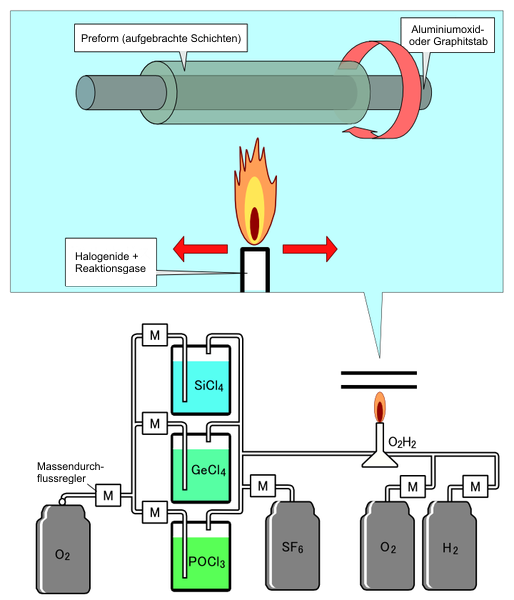 Outside Vapor Deposition (OVD) process for optical fiber manufacturing (German labeling)